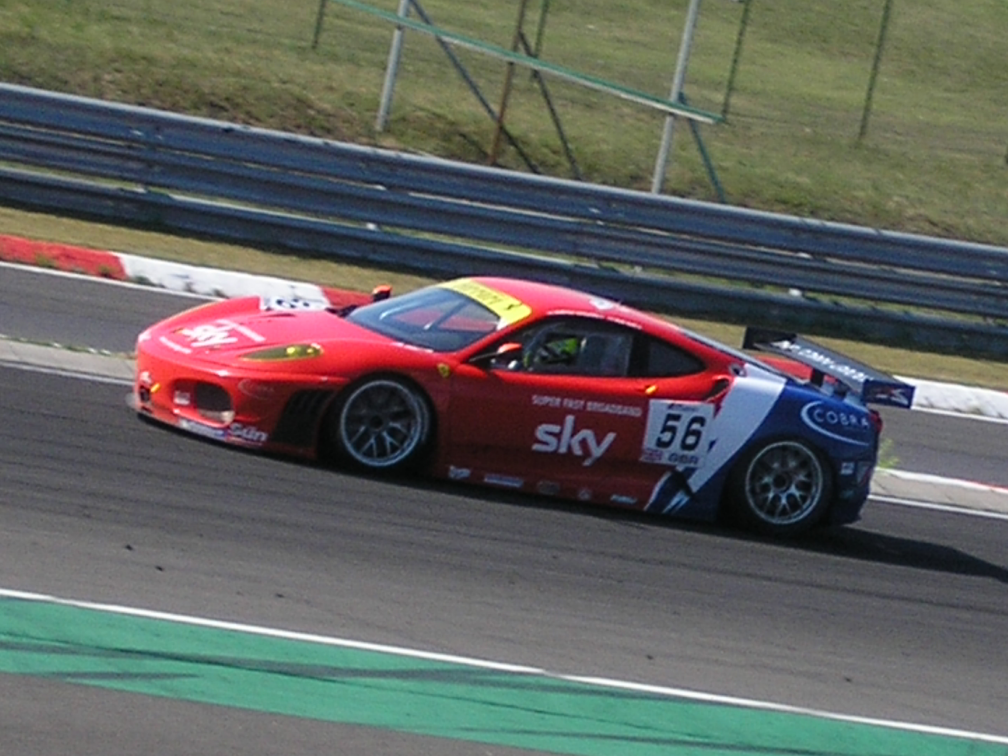 2009 FIA GT Budapest City